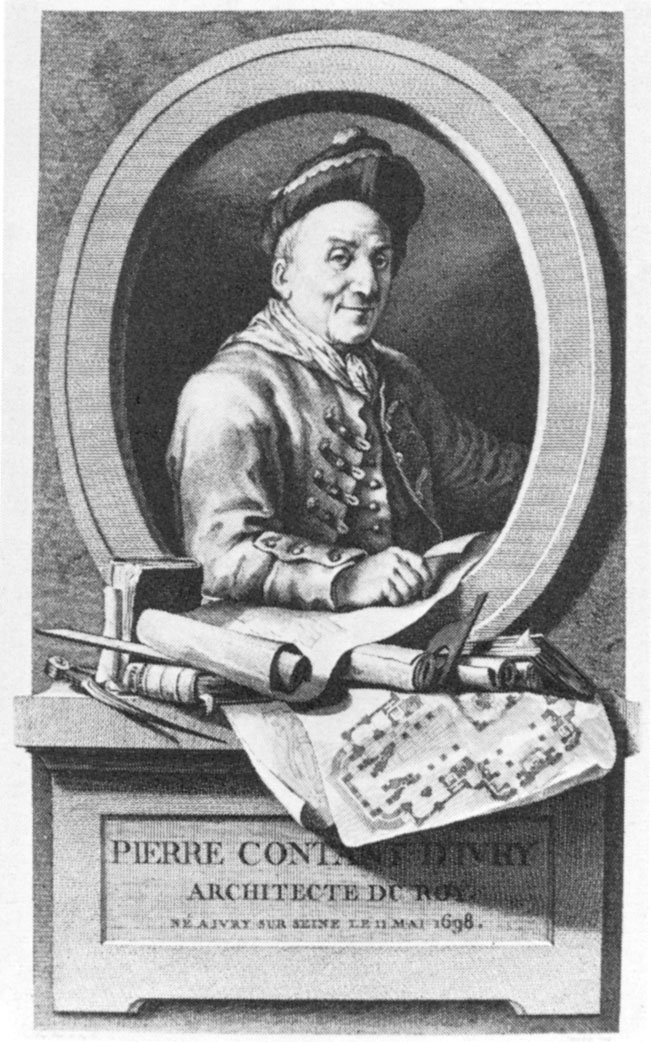 Portrait of Pierre Contant d'Ivry (1698–1777), French architect, frontispiece of his Ouevres d'architecture (1769). The architectural plan hanging over the front ledge is his revised project for the Église de la Madeleine in Paris.